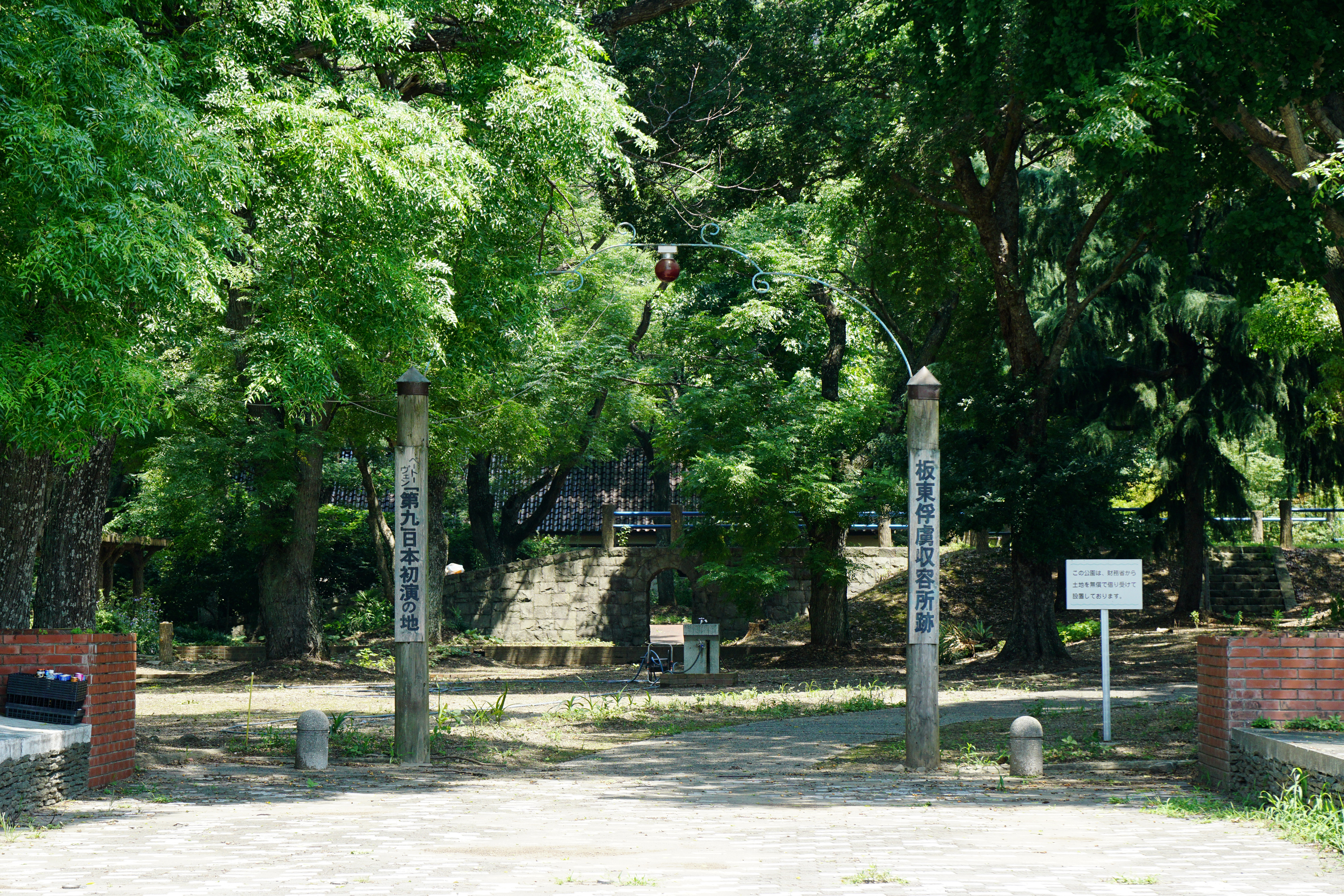 Bandō prisoner-of-war camp ruins in Naruto, Tokushima prefecture, Japan.